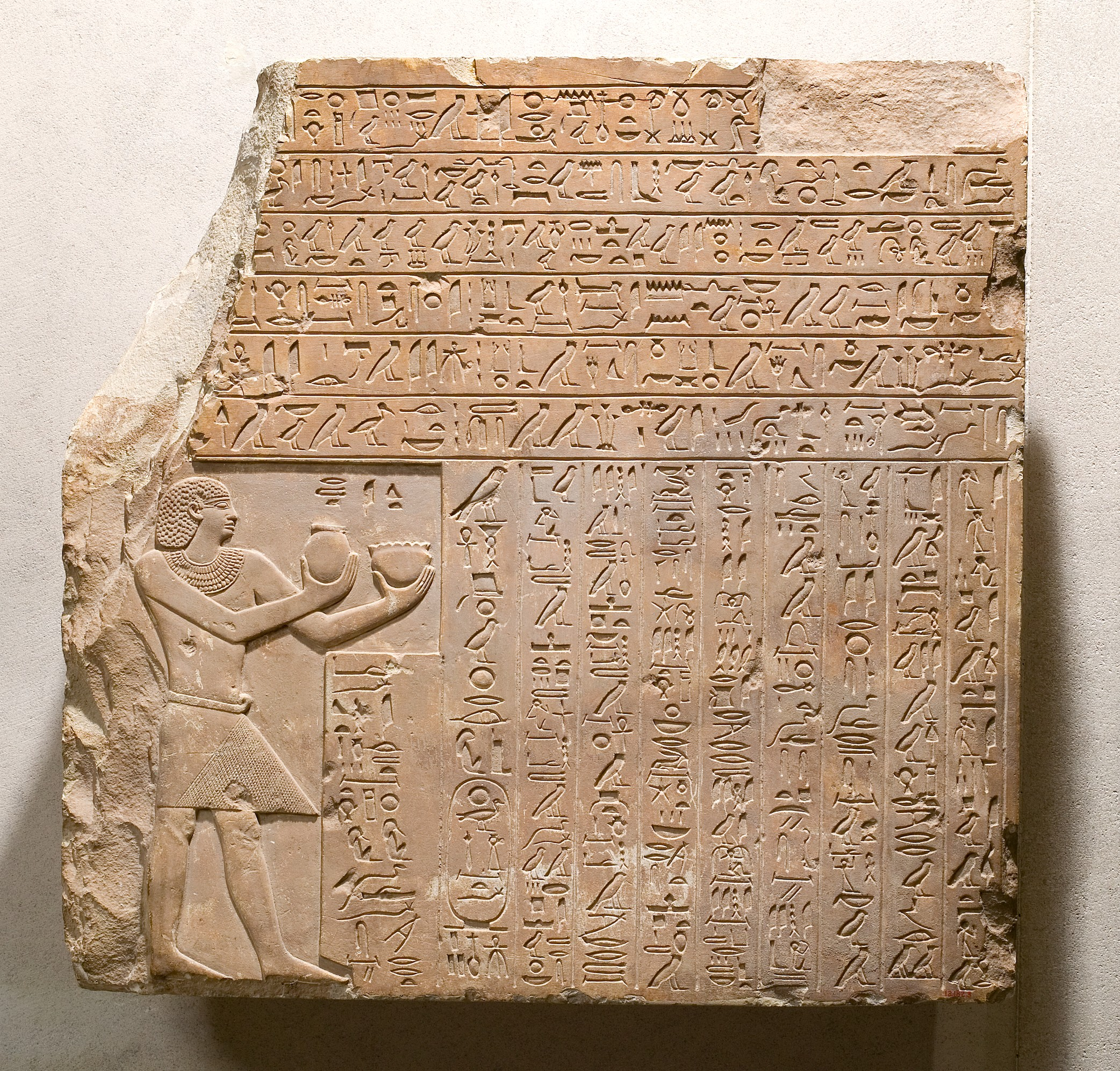 Stela, Intef II Wahankh